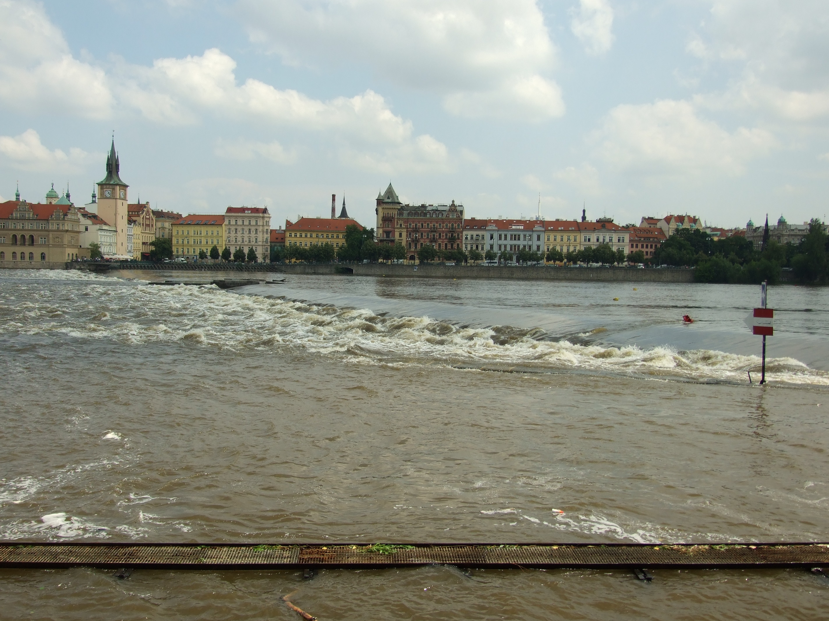 High water level of Vltava river in Prague. In late june 2009 several south-bohemian rivers, including Vltava, caused flooding of several villages and cities. As a result, water level of Vltava in Prague rose; emergency council was active for several days and Čertovka was closed. Prague, CZhelp